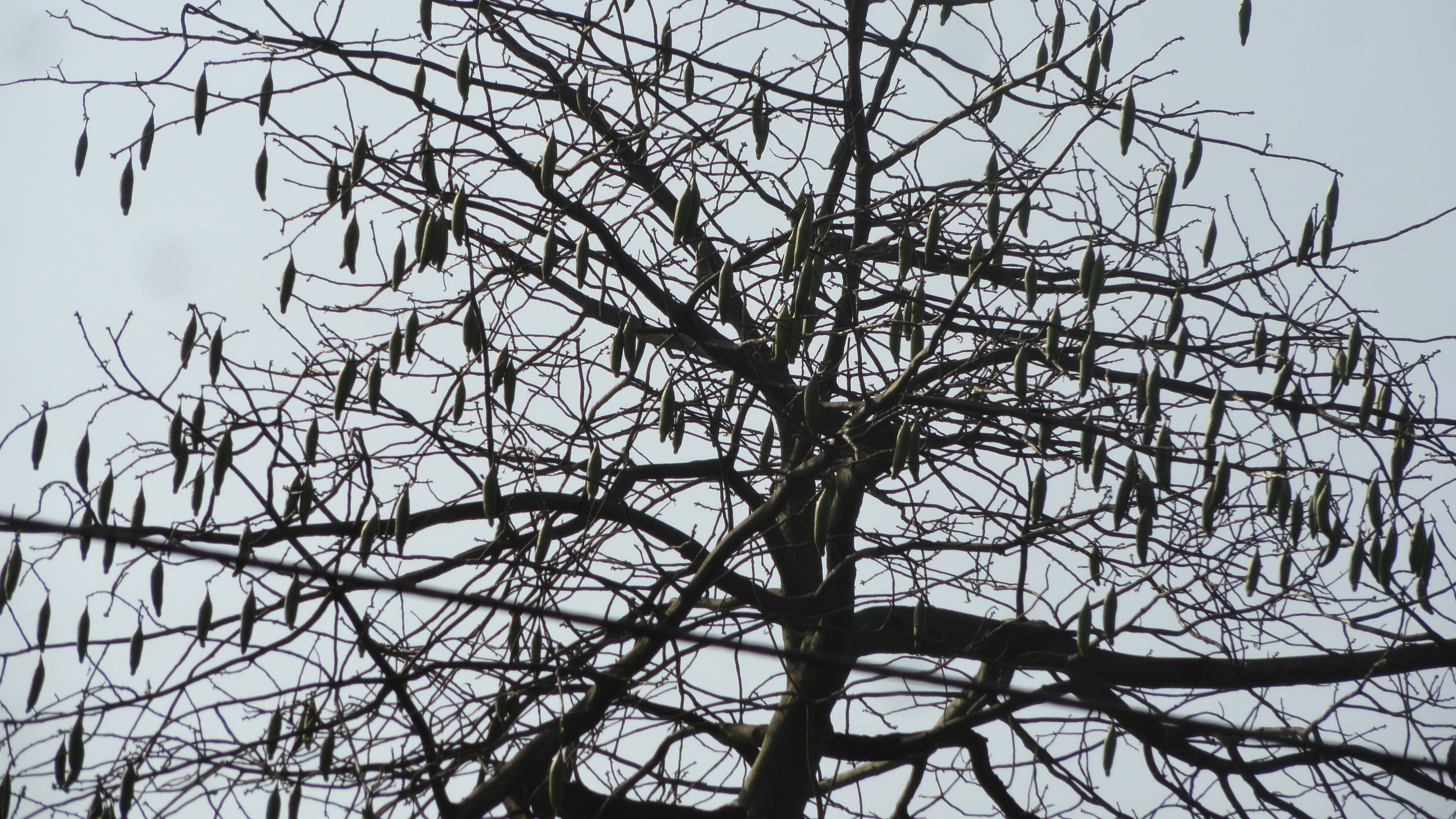 బూరగ చెట్టు. చెట్టు నిండా కాయలో . 17.2.2014 లో విజయవాడలో తీసిన చిత్రము